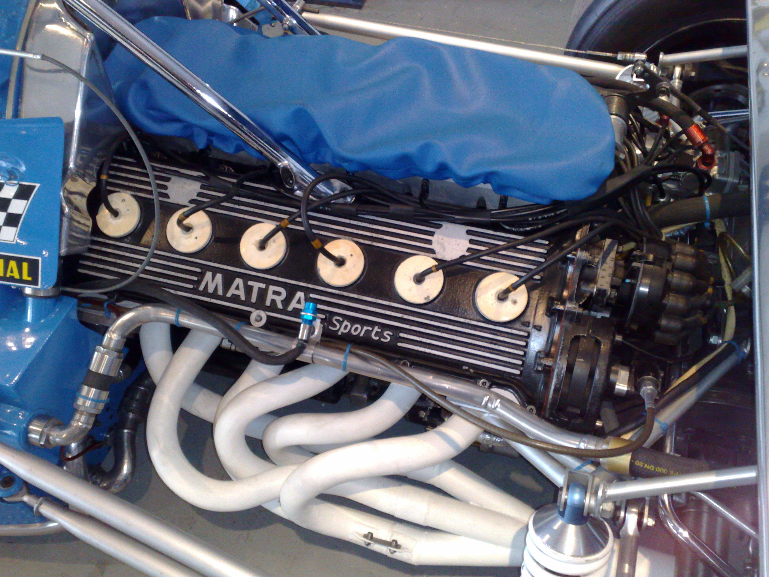 Matra MS12 3.0 V12 engine, as mounted in an MS120 Formula-1 racing car. The blue canvas covers the air intakes.